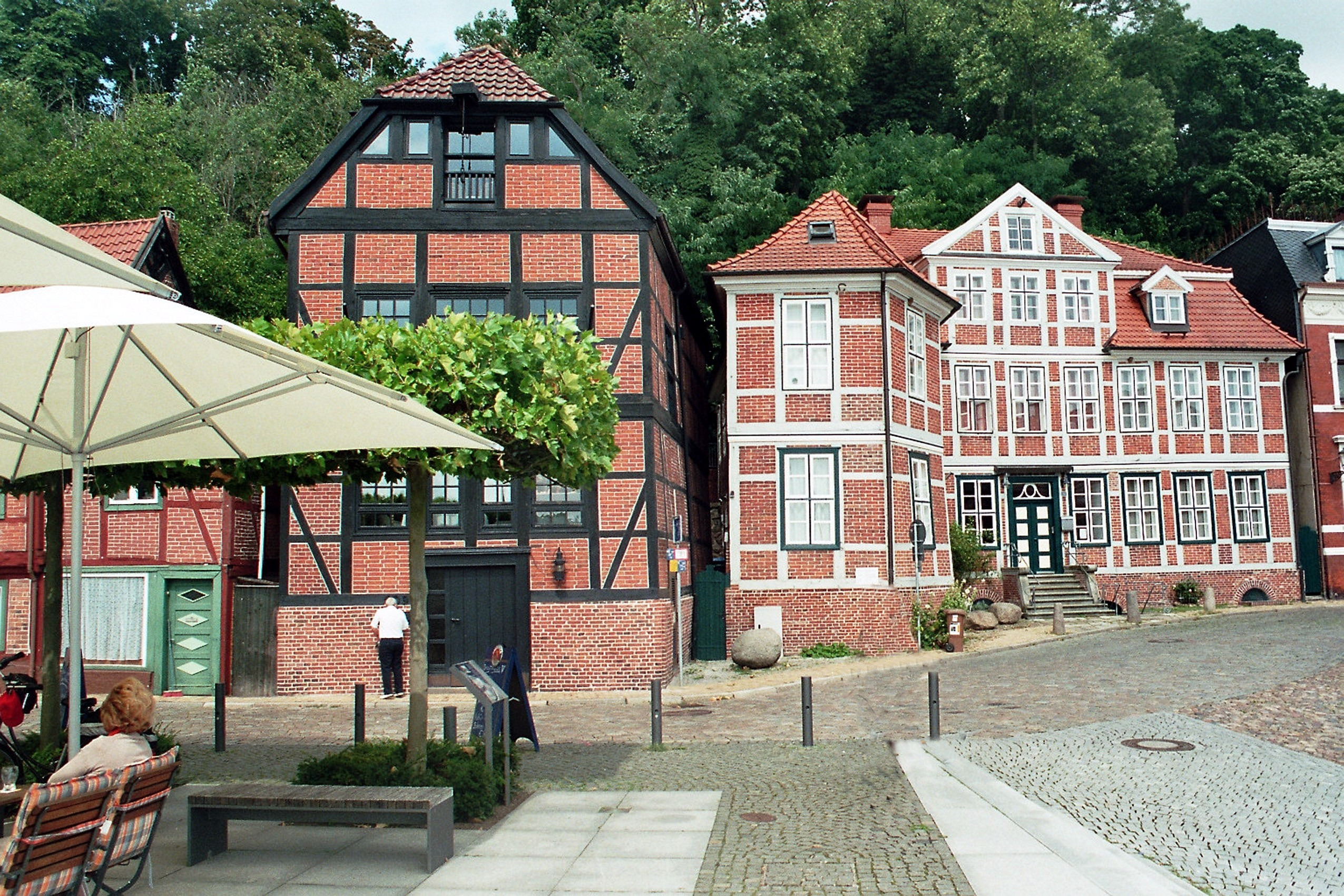 Lauenburg, der Ruferplatz